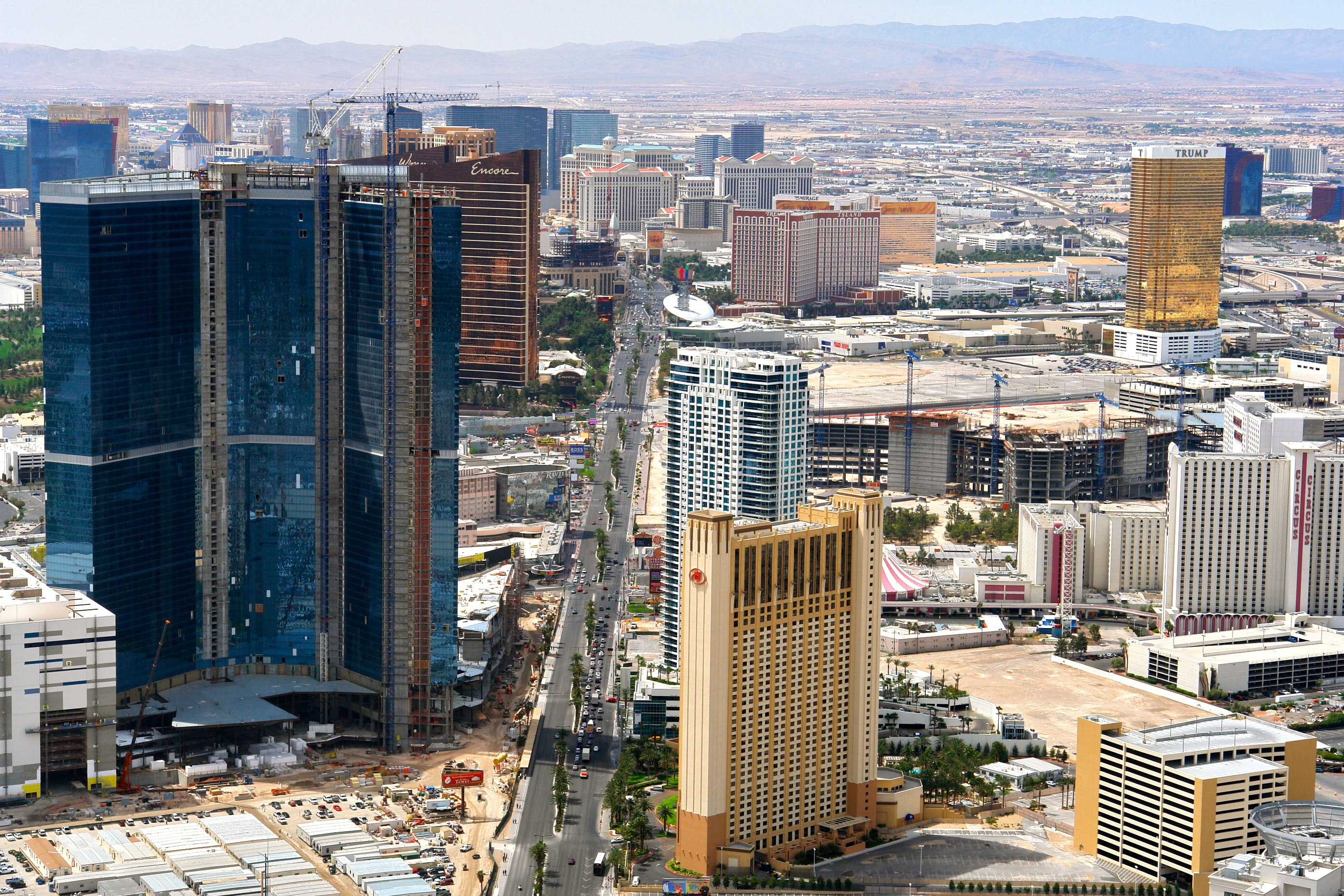 View of the Las Vegas Strip from the Stratosphere